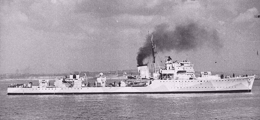 British Hunt class destroyer HMS Tynedale